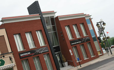 A picture of the temporary University of Waterloo Stratford Campus at 6 Wellington St., Stratford ON